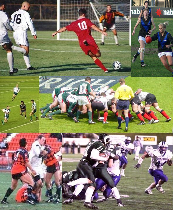 Football. This is a collage of: Image:Football iu 1996.jpg (top left) Image:Contested mark2.jpg (top right) Image:International rules.jpg (middle left) Image:Rugby union scrummage.jpg (middle right) Image:Torneo de clasificación WRWC 2014 - Italia vs España - 18.jpg (bottom left) Image:College Football CSU AF.jpg (bottom right)